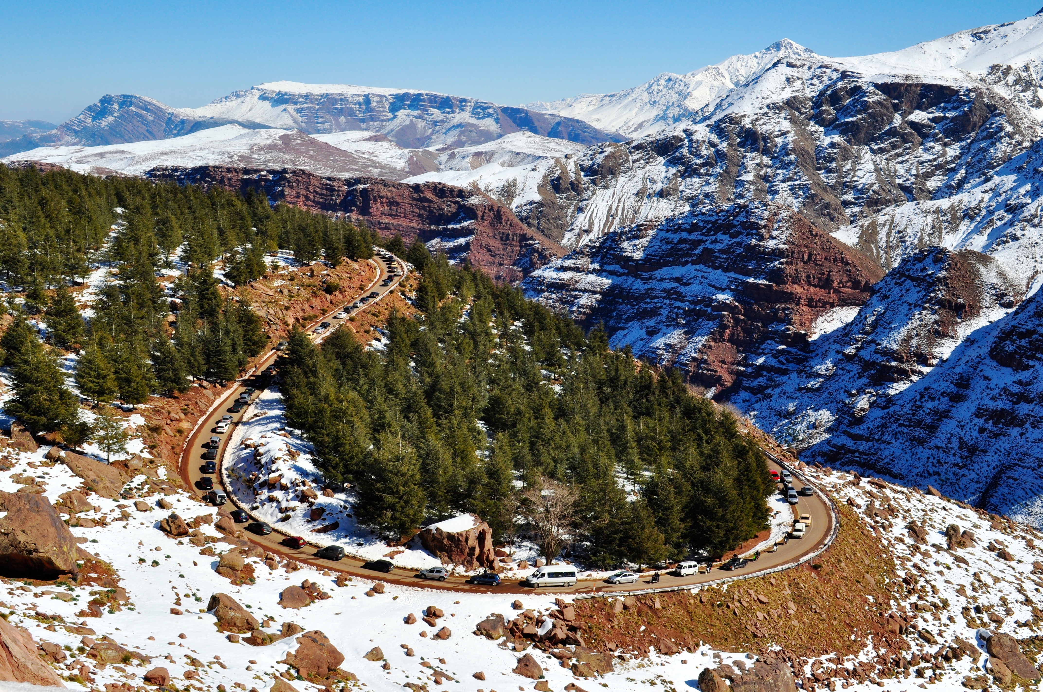 A moment of inspiration, one of the scenic locations of the Oukaimden village, Marrakesh suburban.